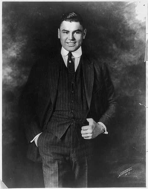 Jack Dempsey